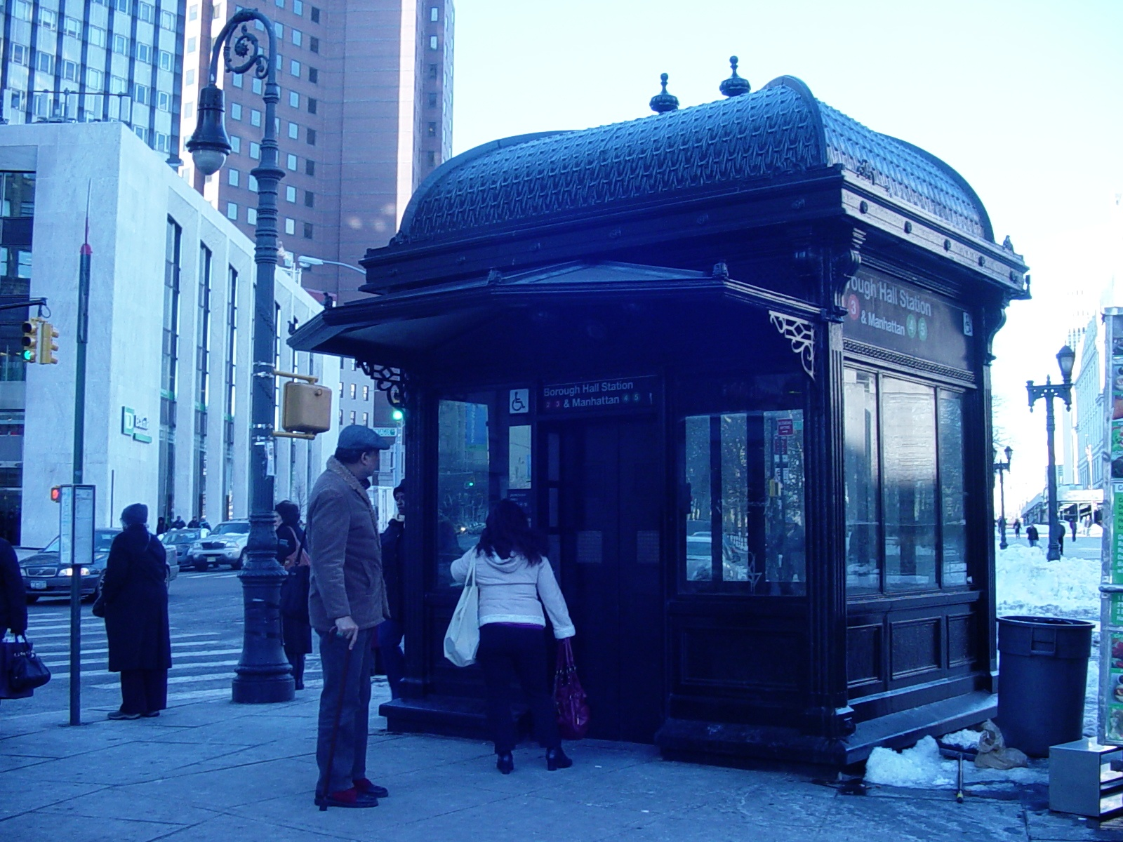 Elevator at street level of Court Street – Borough Hall (New York City Subway) station complex